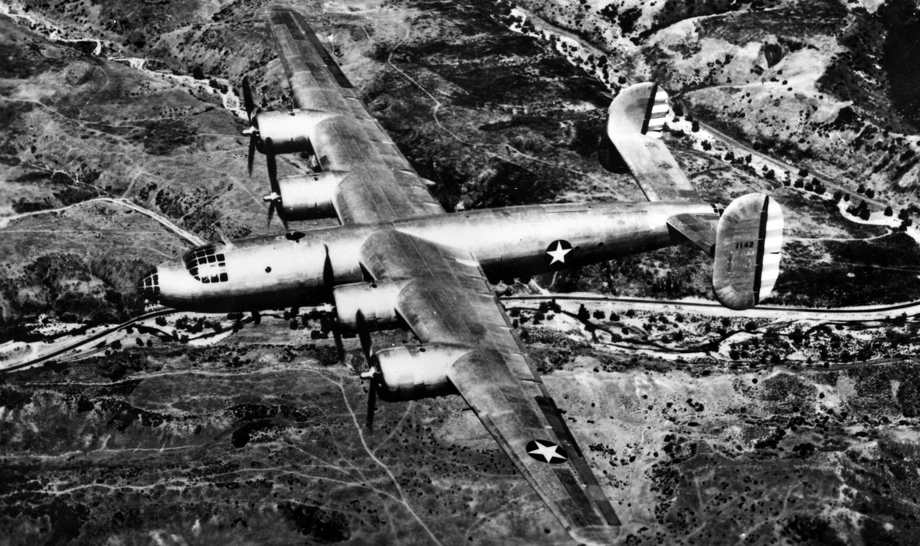 Consolidated XB-32 Dominator in flight.